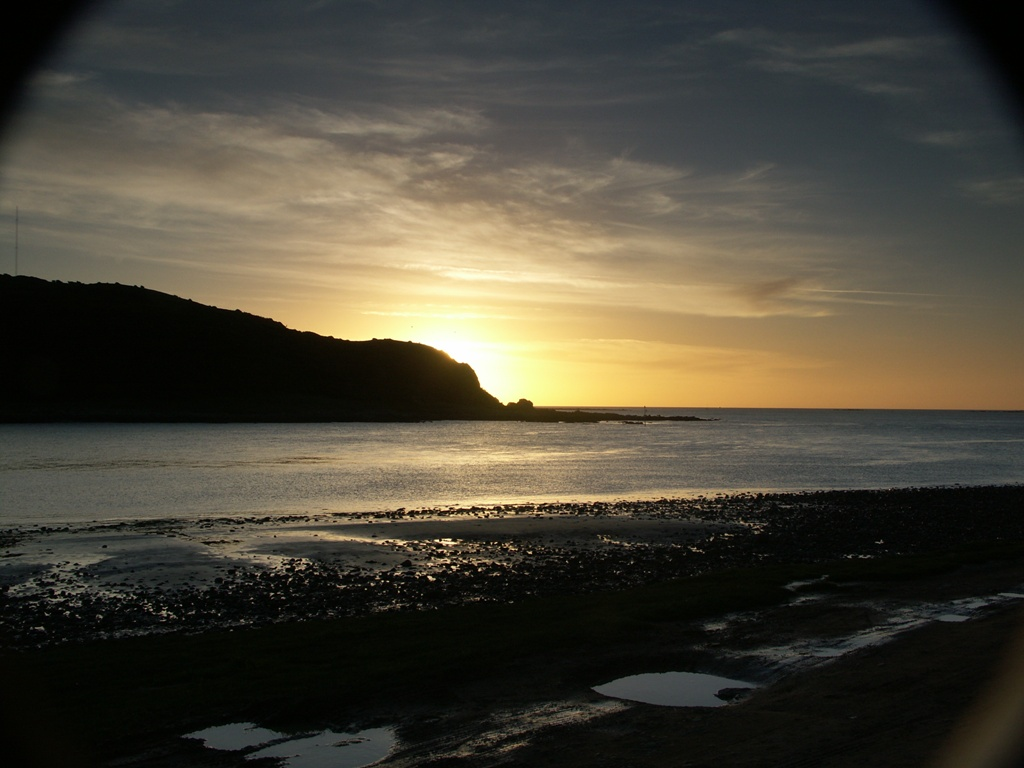 SunsetNgatiToaDomainPICT9070.jpg - photo taken and uploaded by Paul Moss, Photographer, Artist, Paul Moss Photographer Artist NZ Landforms at Ngati Toa Domain, Porirua, Greater Wellington, New Zealand.